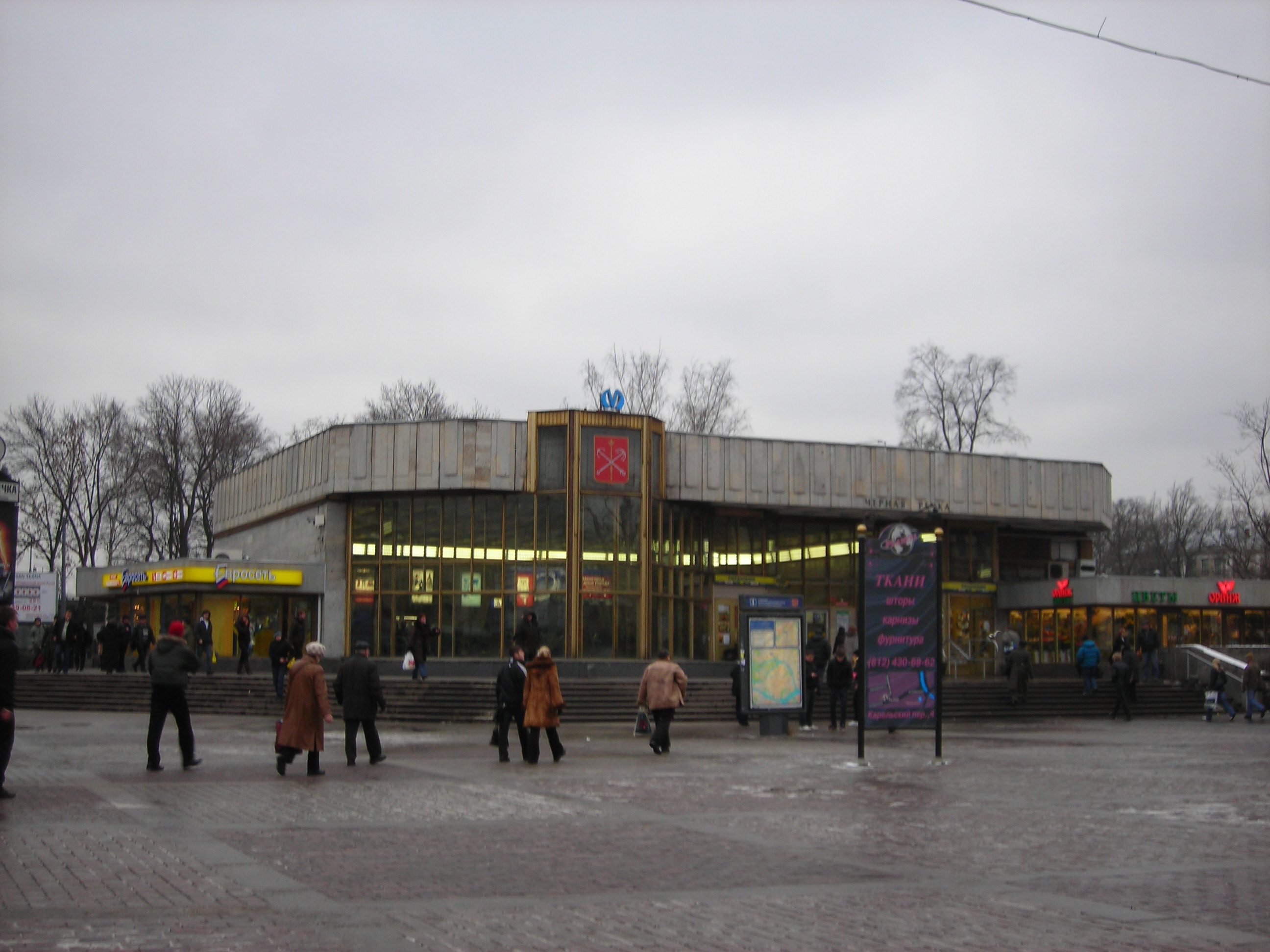 Pavilion of metrostation «Chornaya rechka», Spb